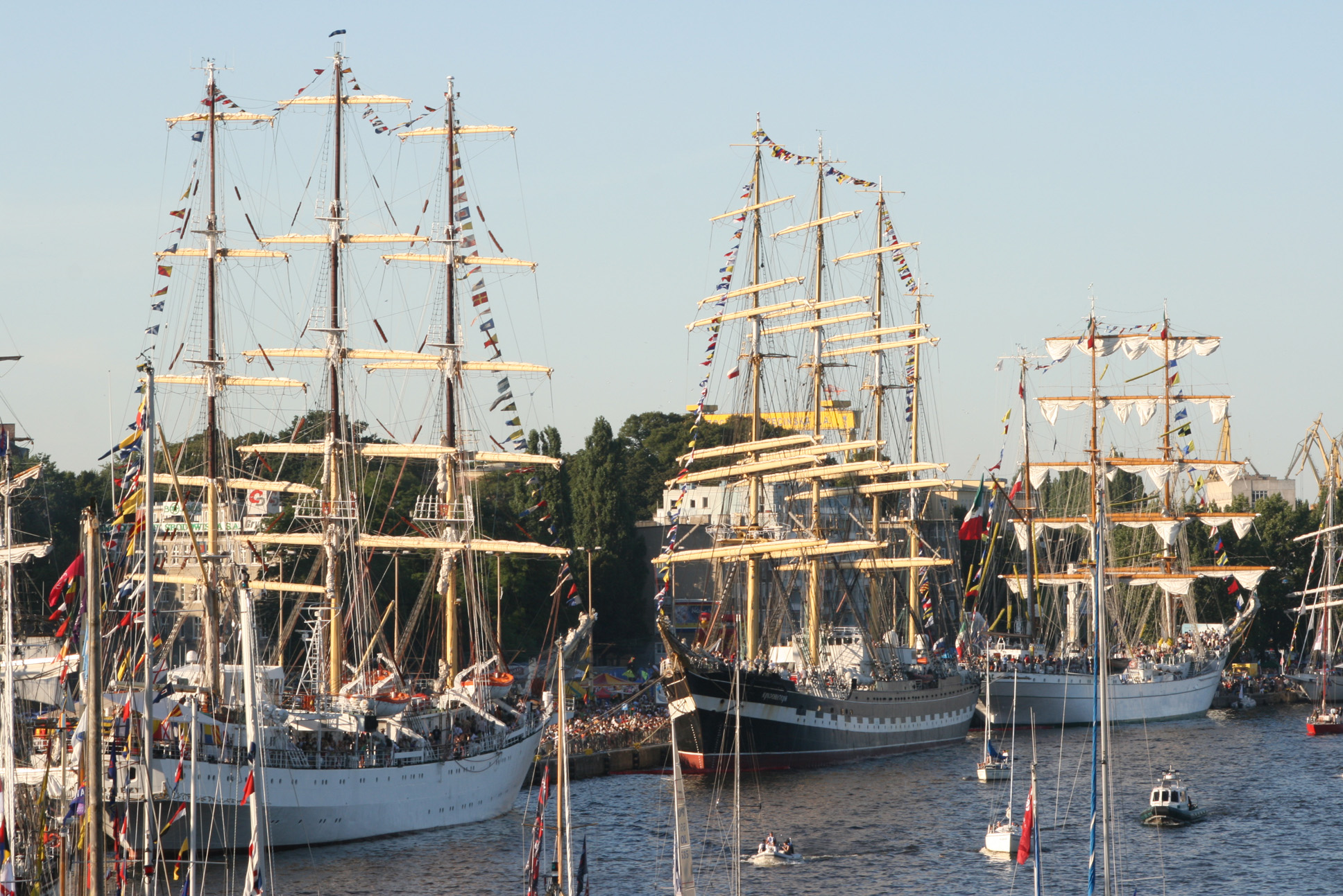 The Tall Ships' Races, Szczecin 2007